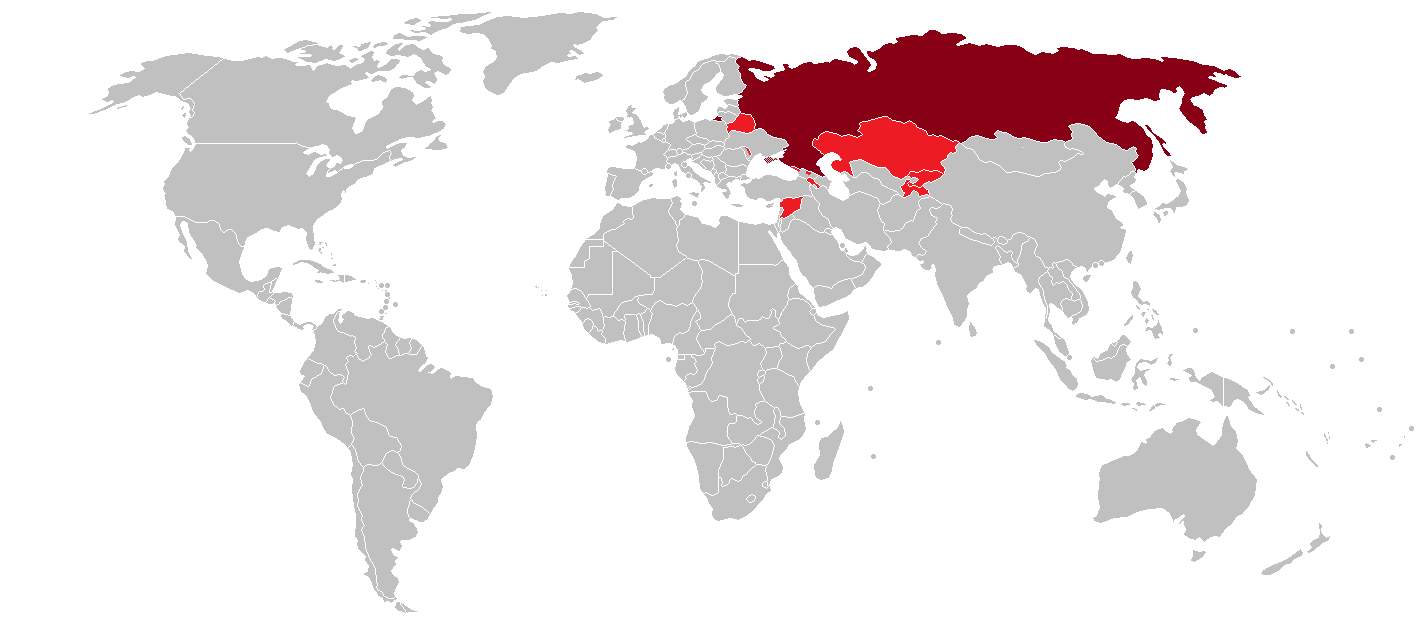 Russian military bases as of 2015: Territory of the Russian Federation, including Crimea Countries with Russian military bases